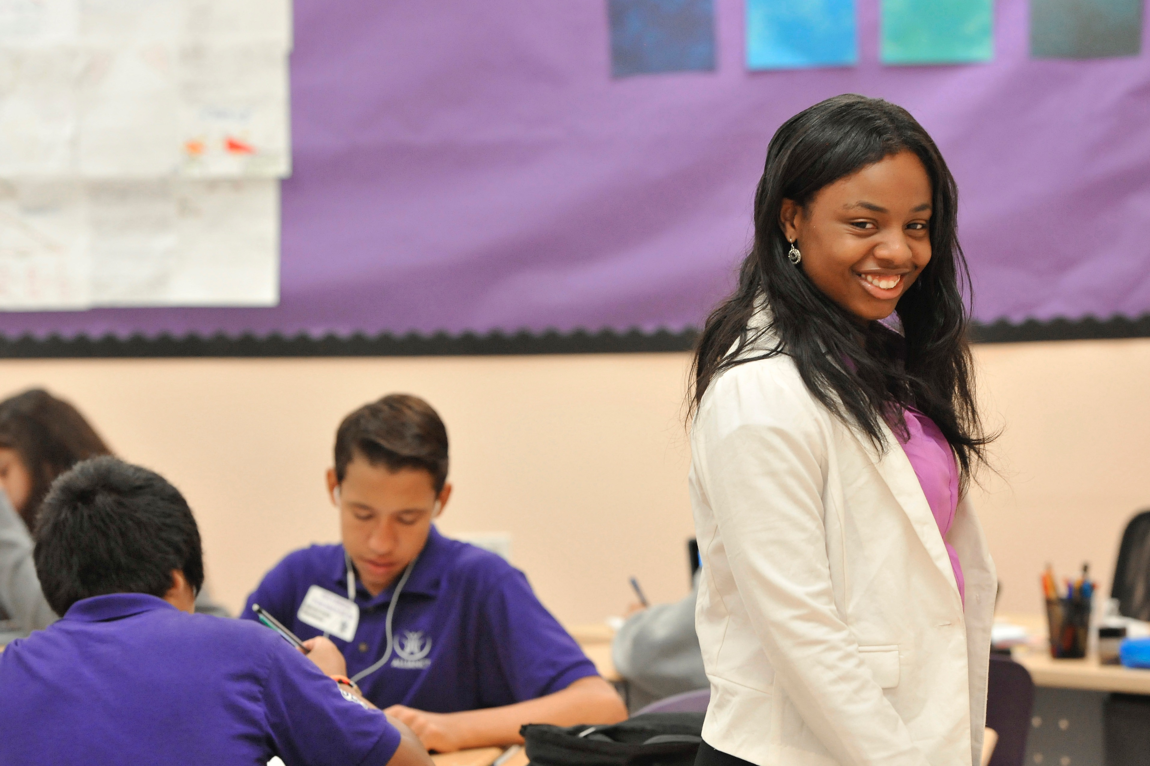 Teacher Emerald Branch in her math classroom